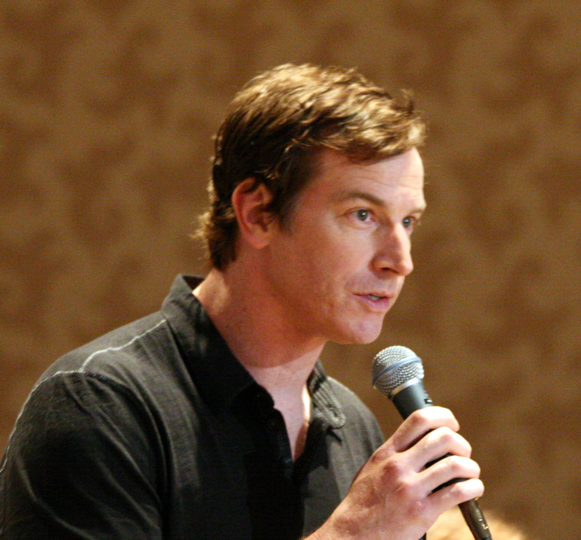 Rob Huebel at Comic-Con International, July 13, 2012.